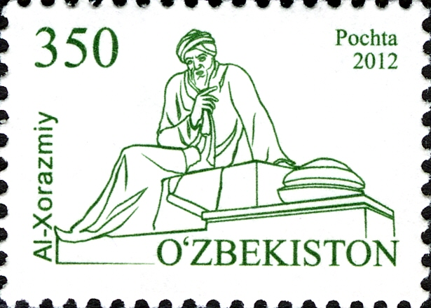 Stamps of Uzbekistan, 2012